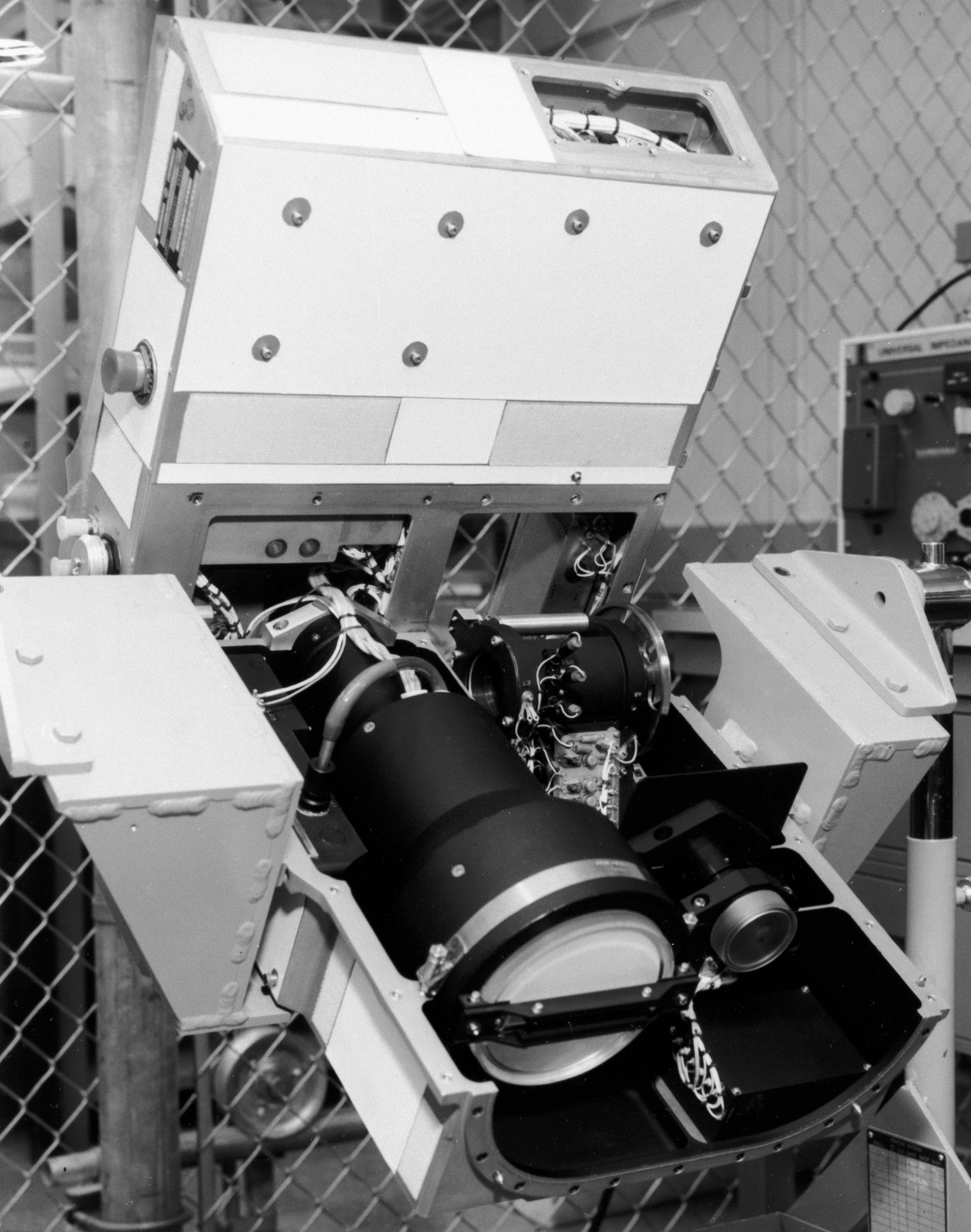 Apollo 17 Service Module Sim Bay cameras.